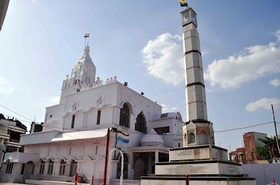 nandeeshwardeep photo